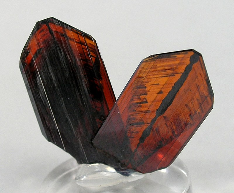 Brookite Locality: Taftan, Chagai District, Balochistan (Baluchistan), Pakistan (Locality at ) Size: 2.5 x 2.0 x 0.4 cm. This pristine brookite piece has a great dramatic splay to it that gives it a good 3-dimensionality for the size. The zoning adds more interest to it, and it is pristine and complete.